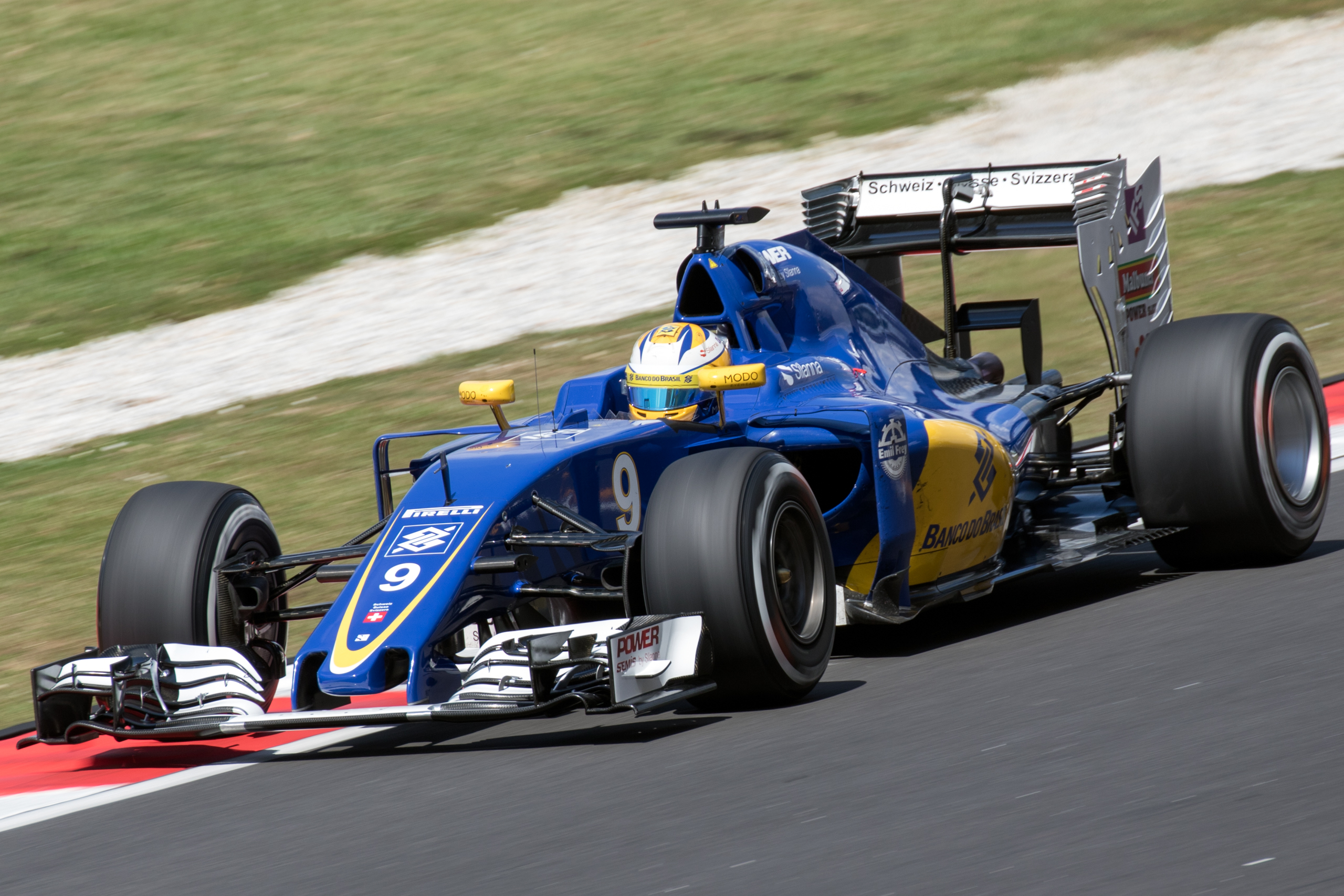 Formula One 2016 Rd.16 Malaysian GP: Marcus Ericsson (Sauber)